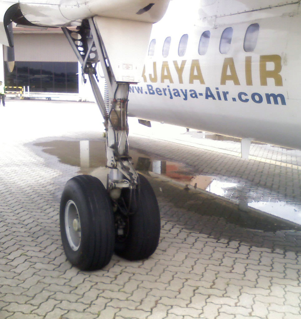 An Image of a Berjaya Air Dash 7 aircraft Landing Gear. Photo taken at Sultan Abdul Aziz Shah Airport (commonly known as Subang Airport) (SZB), Subang, Malaysia